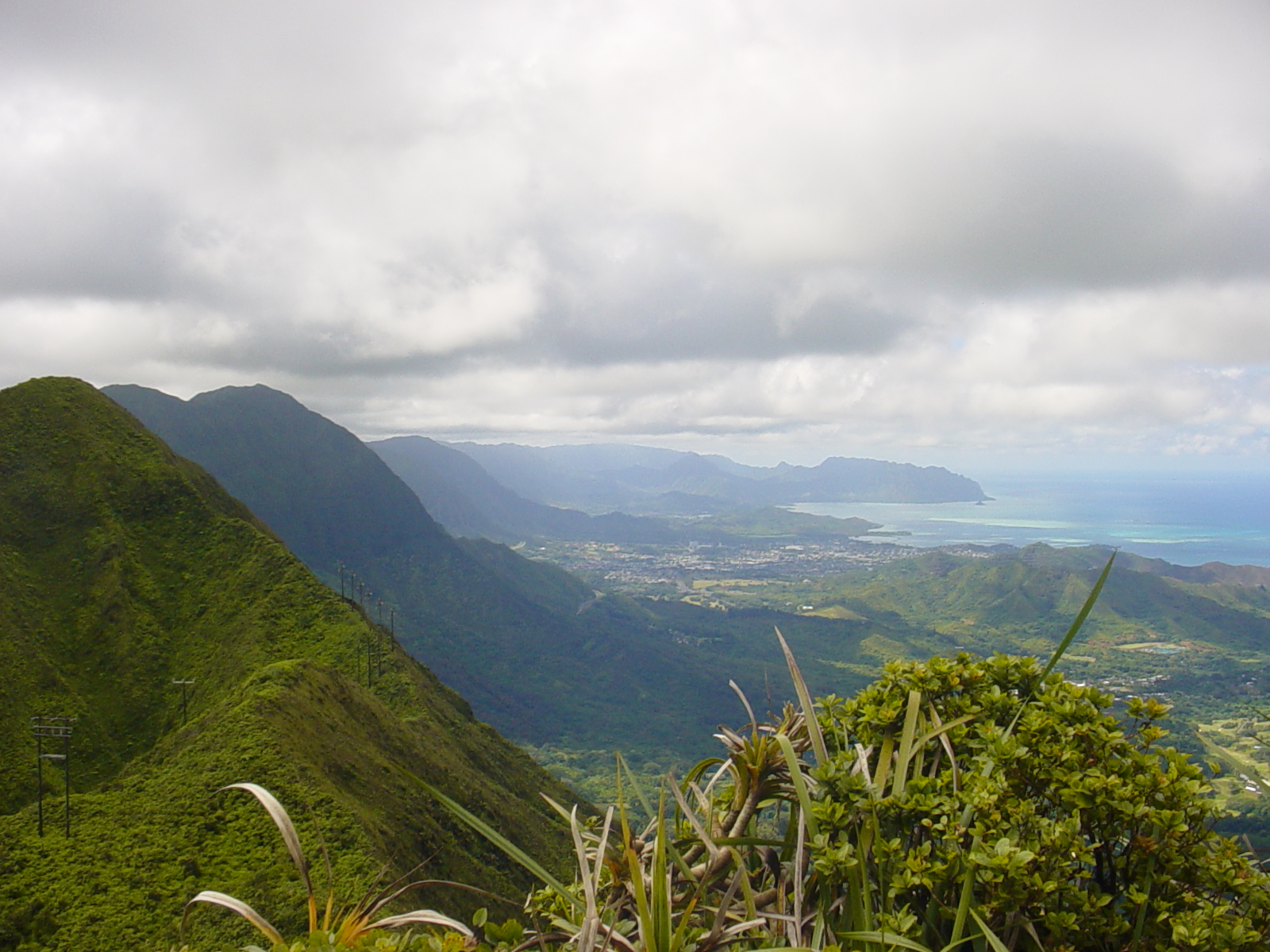 View from the top of the southern/mid-section of the Koʻolau Range. Kaneohe is visible on the right side.